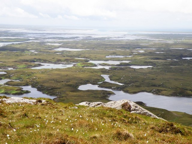 Looking over North Uist This photograph shows how the landscape of parts of North Uist are studded with small lochs